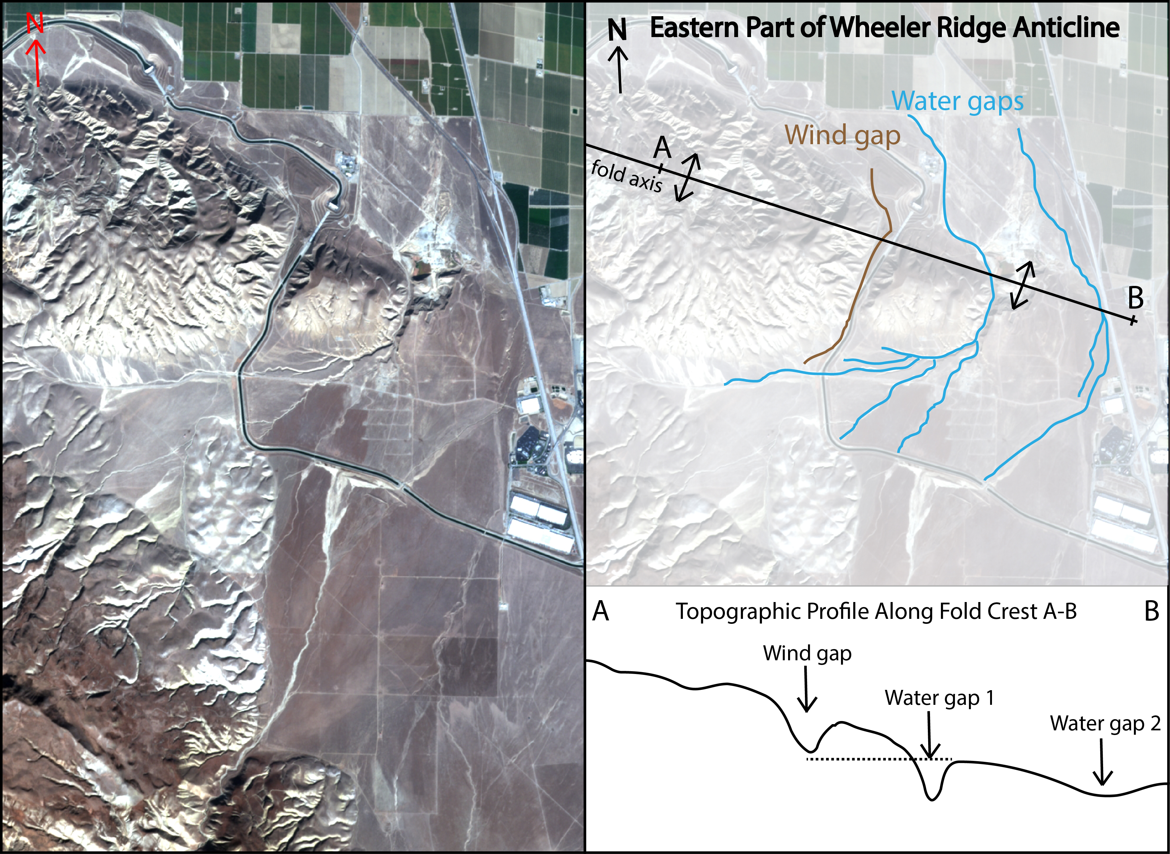 Left: Sentinel Satellite Image of the area of Wheeler Ridge, CA. Right: Water gaps and wind gaps in the area, and a topographic cross-section across A-B